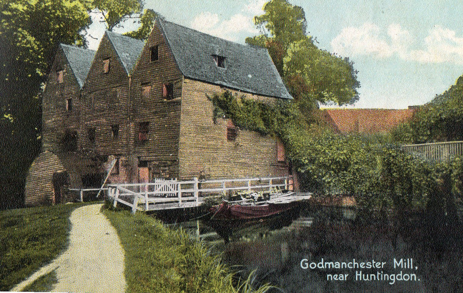 Postcard of the watermill at Godmanchester, Huntingdonshire.